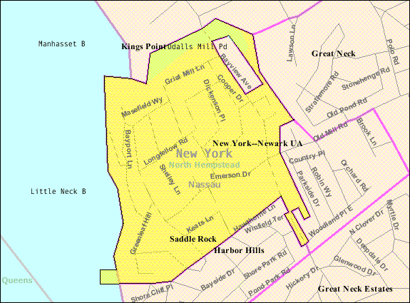 U.S. Census 2000 reference map for Saddle Rock, New York